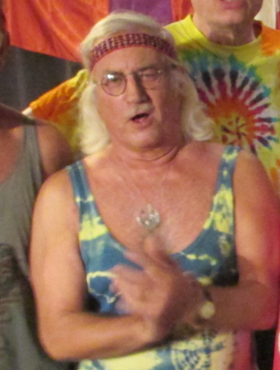 Swedish singer Pyret MobergPlace: Kolingen, Kornhamnstorg, Stockholm, Sweden